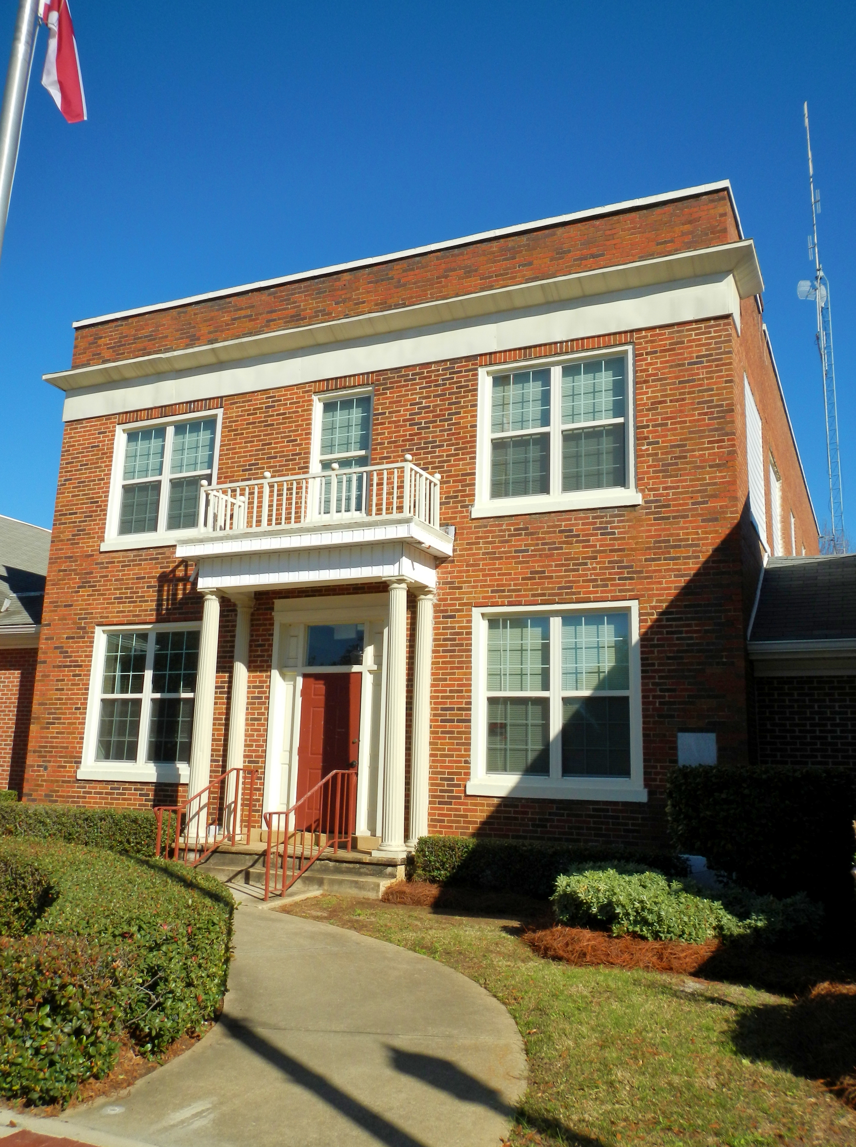 This is a photo of the Headland, AL city hall built in 1930.